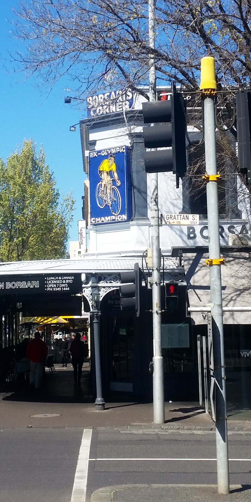 Heritage-listed neon sign at Borsari's Corner, Carlton, Melbourne, Australia